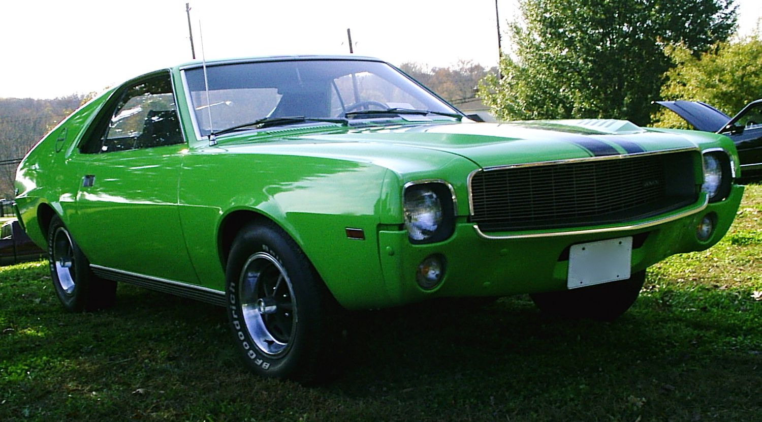 1969 AMX by American Motors Corporation (AMC) two-seat sport coupe. Big Bad Green paint (code P4) with black stripes. This car has the optional 390 "Go Package" that included the 390 cu in (6.4 L) 315 hp (235 kW) V8 engine, racing stripes, power disk brakes, Twin-Grip differential, and other high-performance components. The wheels are correct for the year.